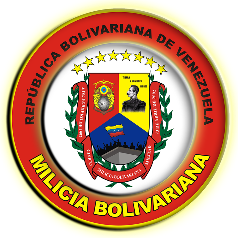 Seal of the Venezuelan National Militia